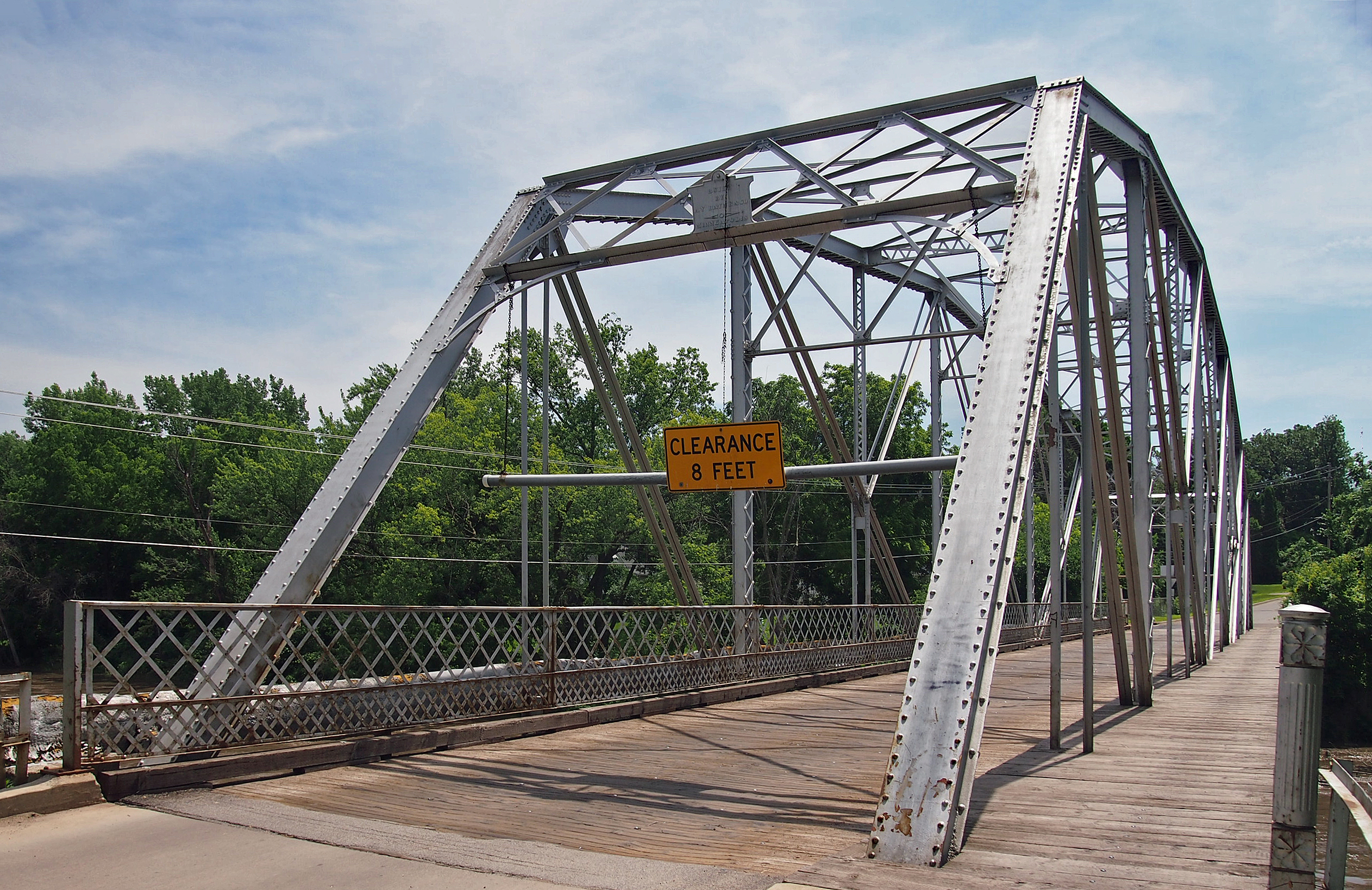 Third Street Bridge, Cannon Falls, Minnesota, USA. Viewed from the south-southeast.